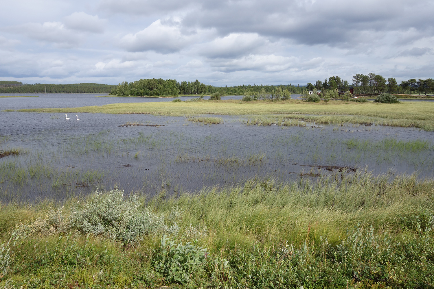 Lake Aisjávrre close to Båtsjaur village, Arjeplog Municipality, northern Sweden.